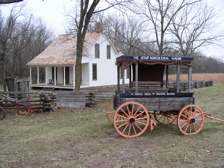 Photo by Matthew A. Lynn